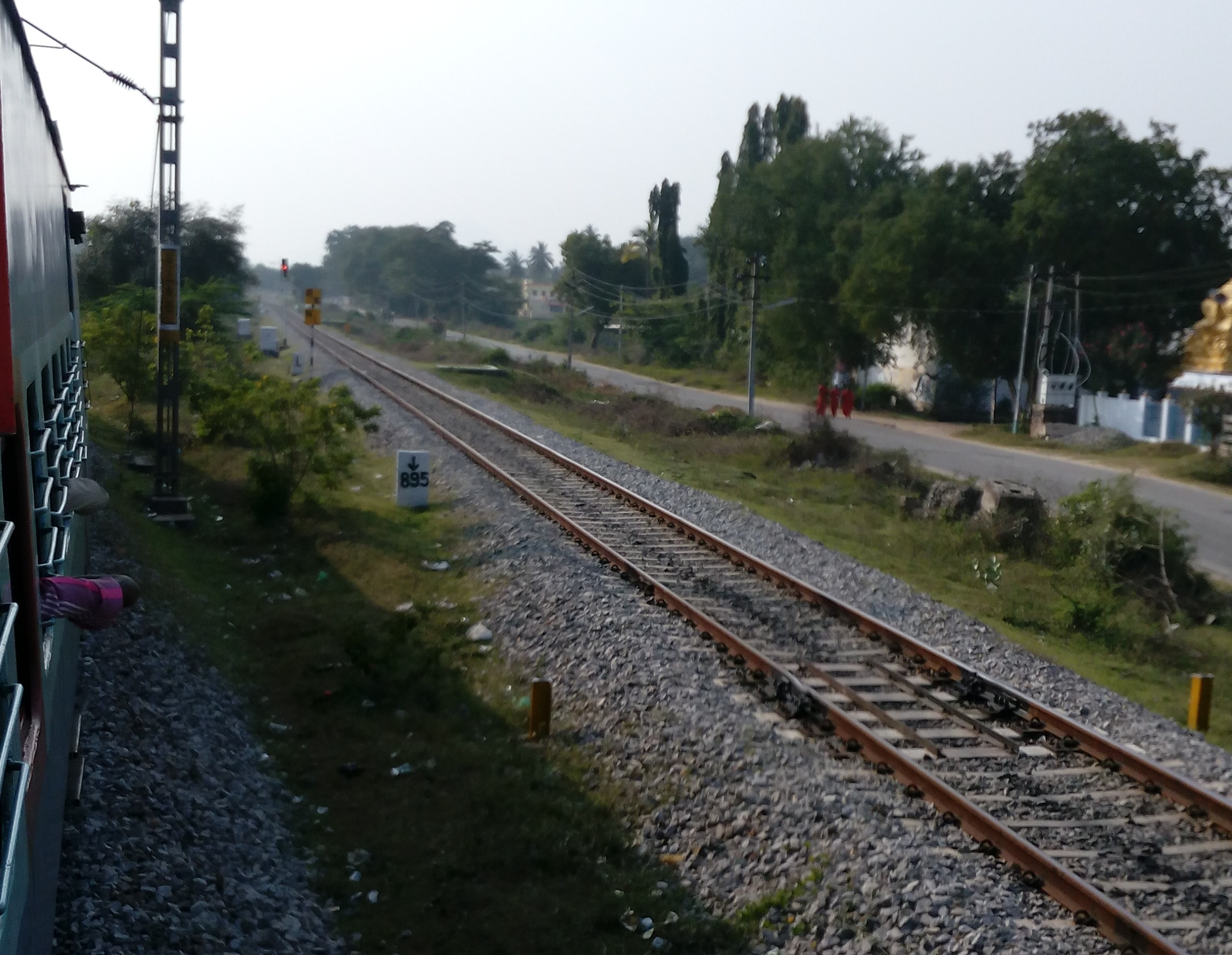 Branch line view from Main line